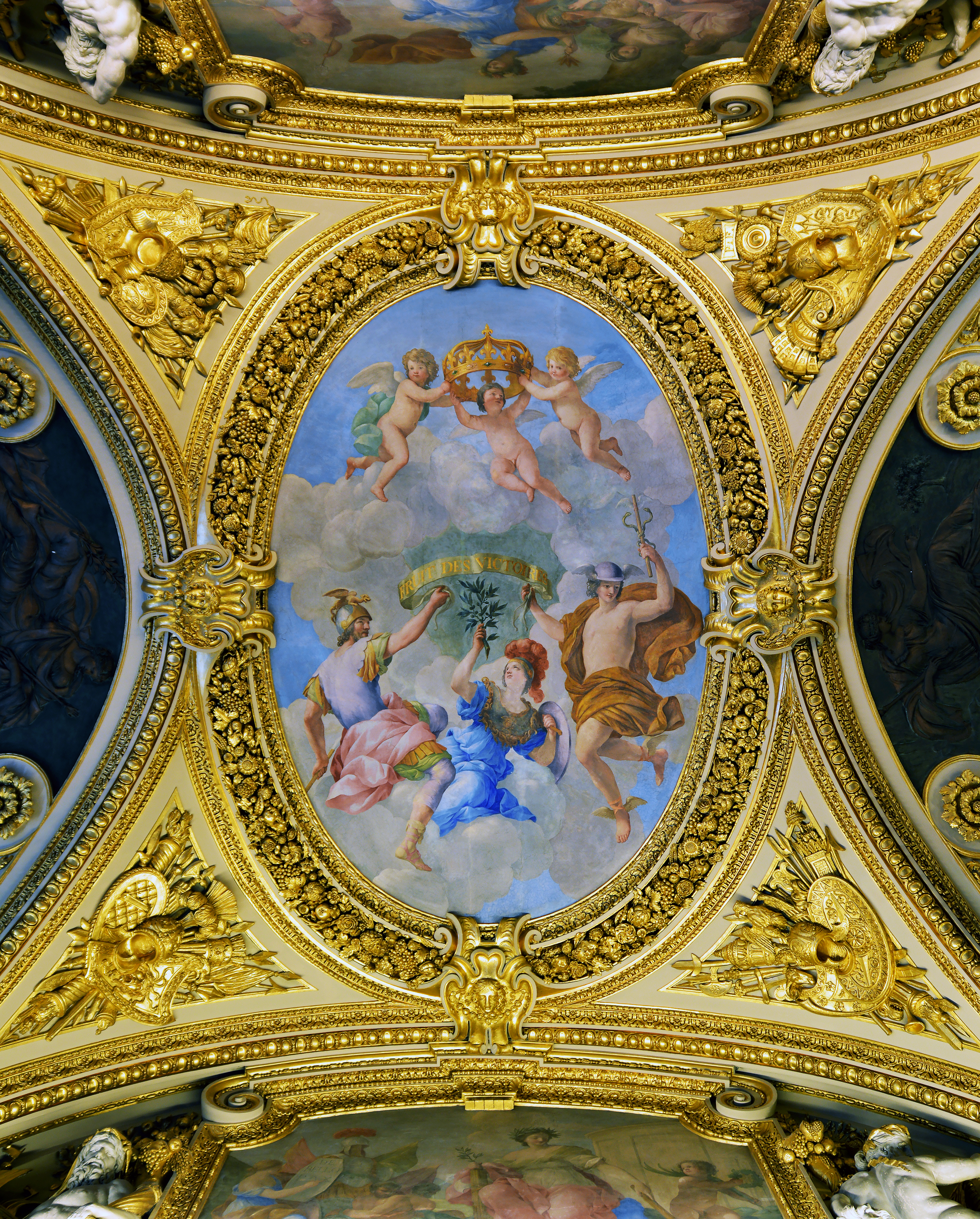 Allegory Treaty of the Pyrenees Louvre